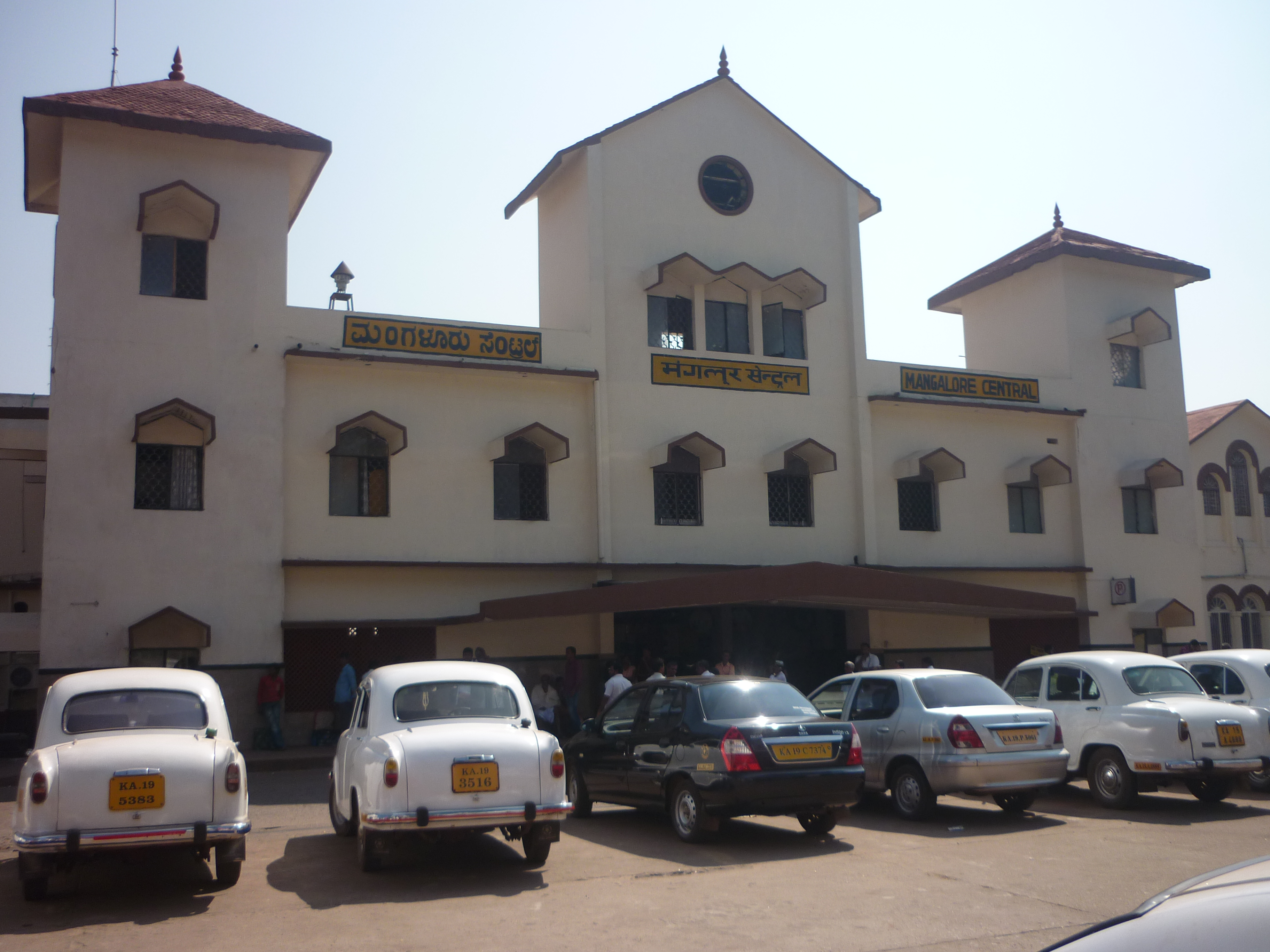 Malayalam loves Wikimedia event